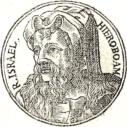 Jeroboam was the first king of the northern Israelite Kingdom of Israel after the revolt of the ten northern Israelite tribes against Rehoboam that put an end to the United Monarchy.